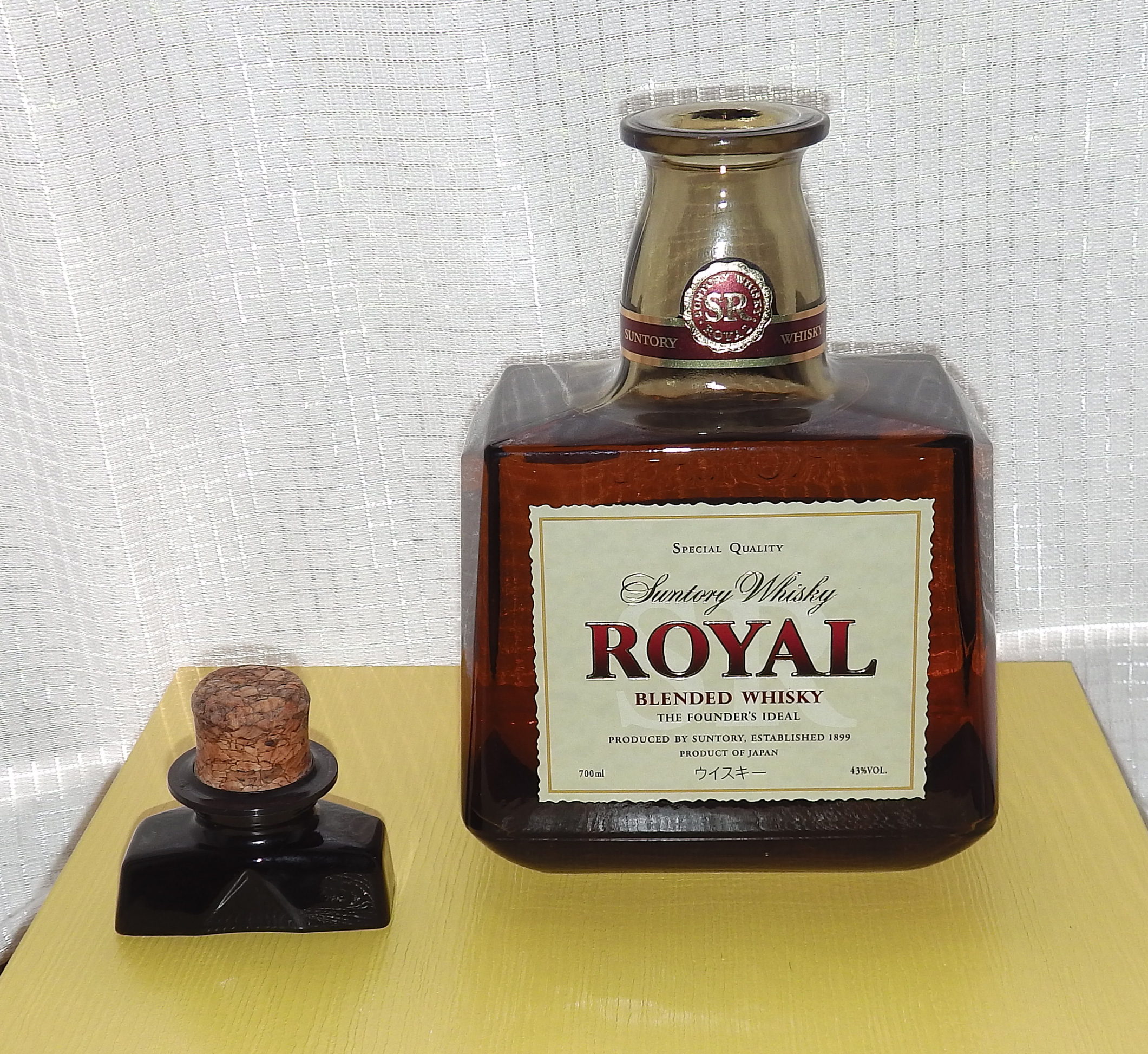 An uncorked bottle of the Suntory Royal, Japanese whisky.